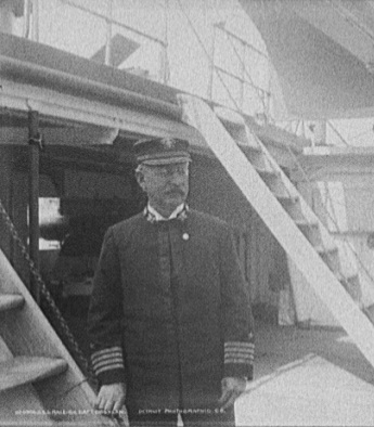 Joseph Bulloch Coghlan, Captain of U.S.S. Raleigh